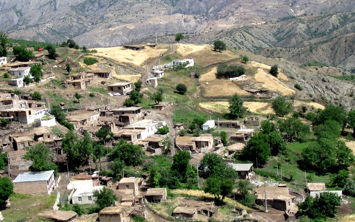 A photo for Alherd wiki page.